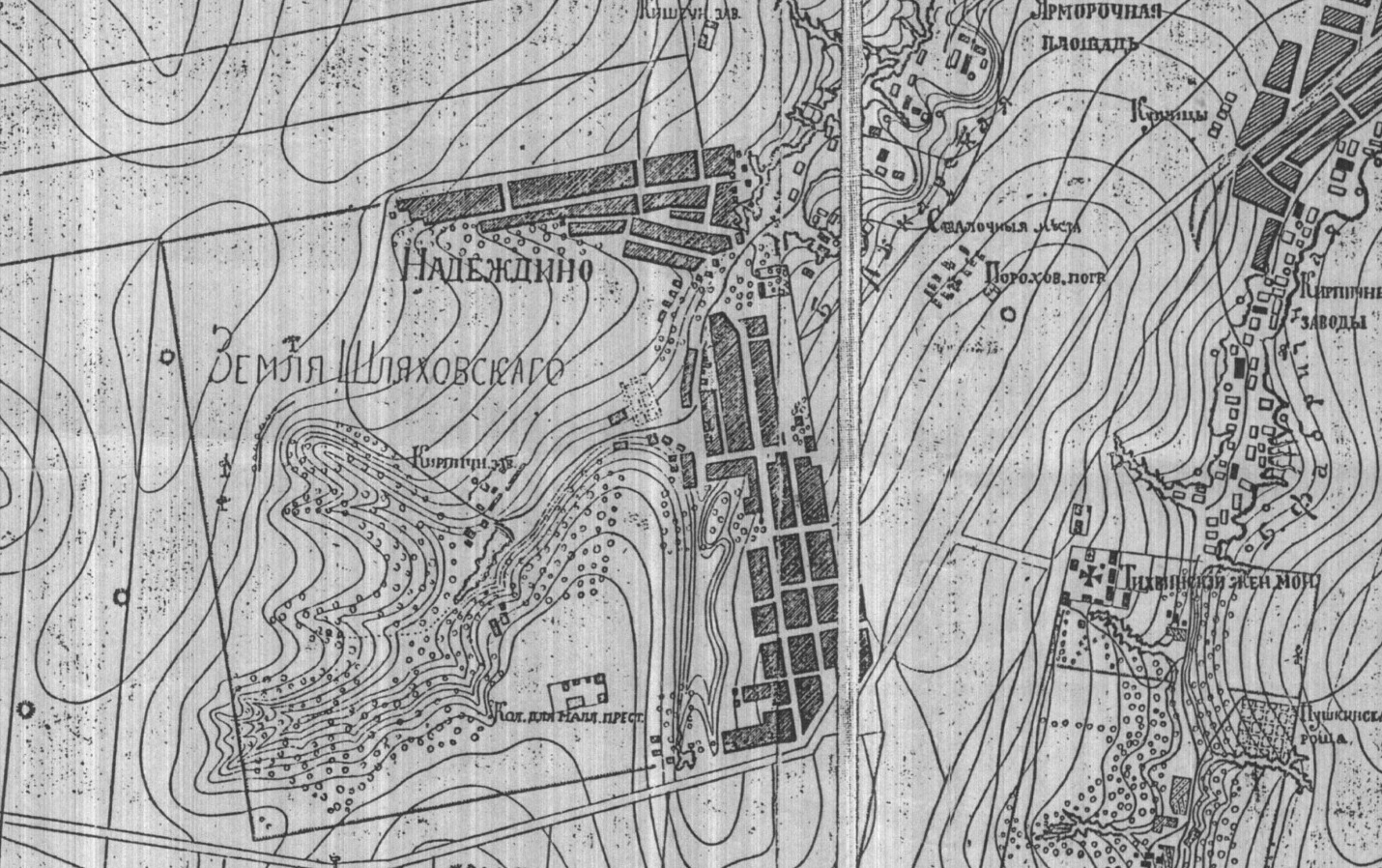 Part of the old map of Yekaterinoslaw (current name: Dnipro).